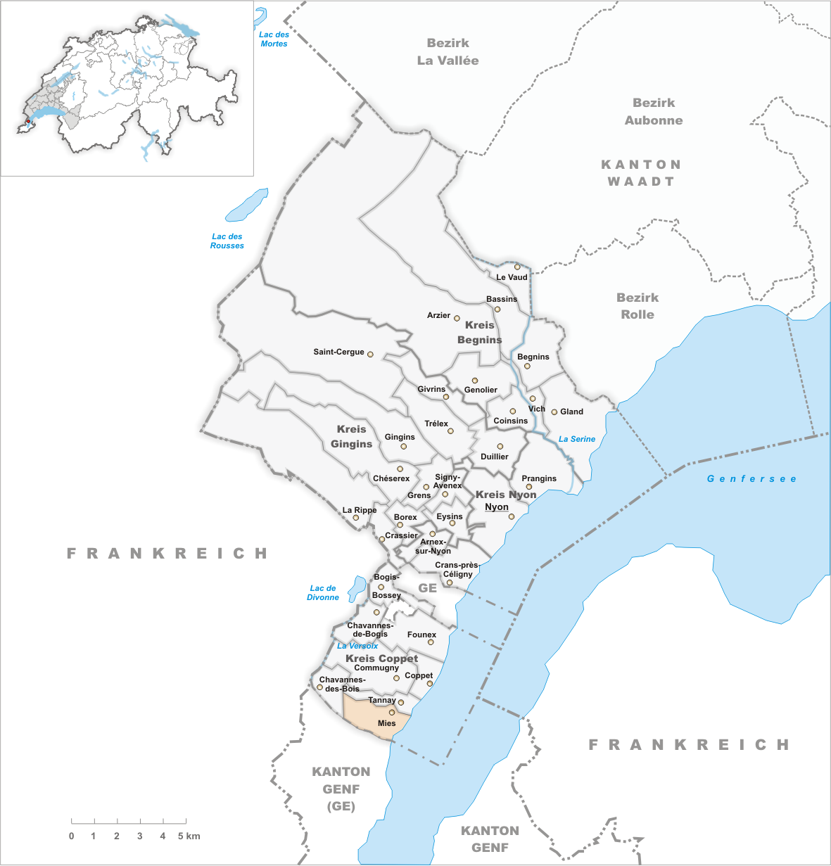 Municipality Mies